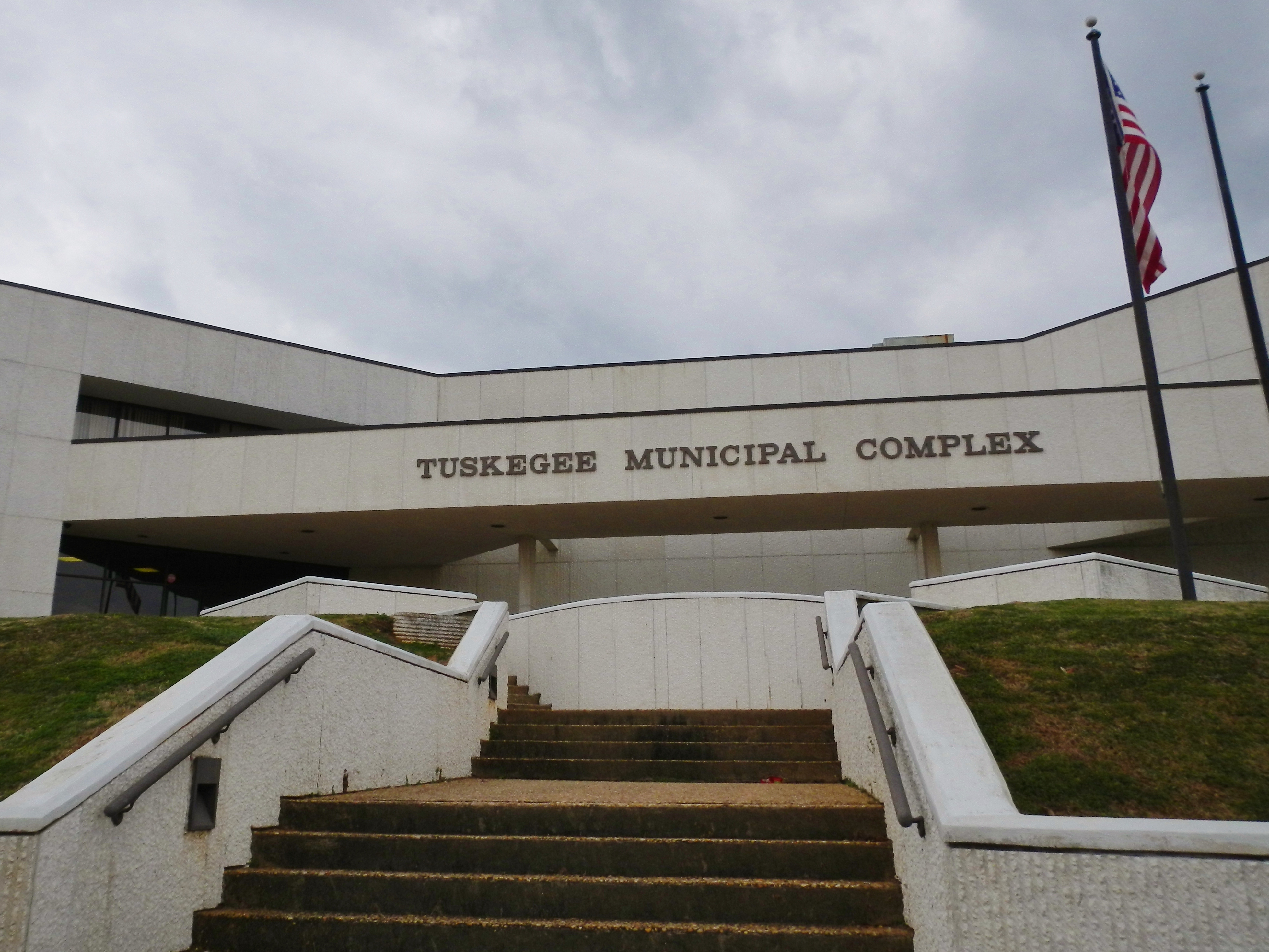 This is a photo of the Tuskegee Municipal Complex in Tuskegee, Alabama.